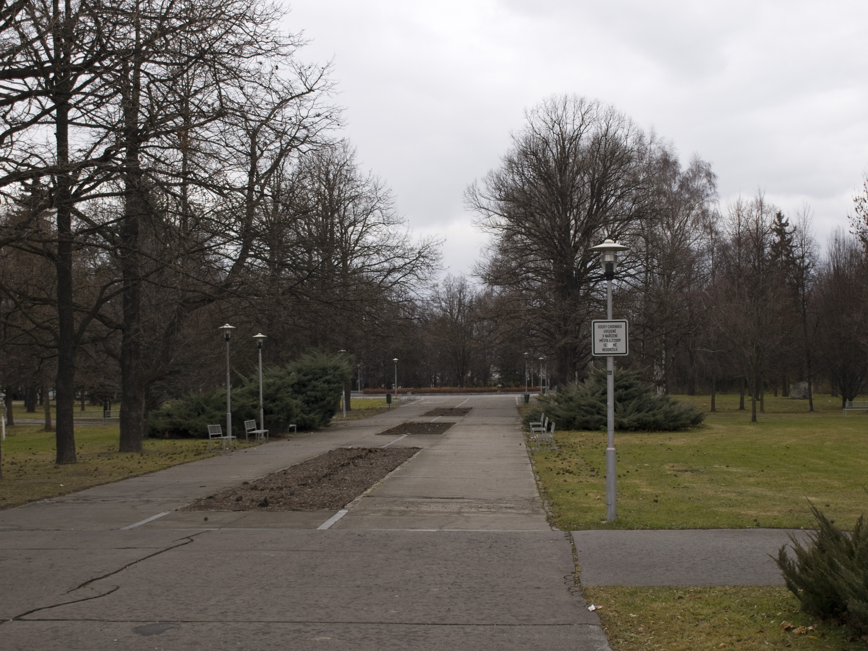 Milada Horáková Park, Moravská Ostrava a Přívoz, Ostrava